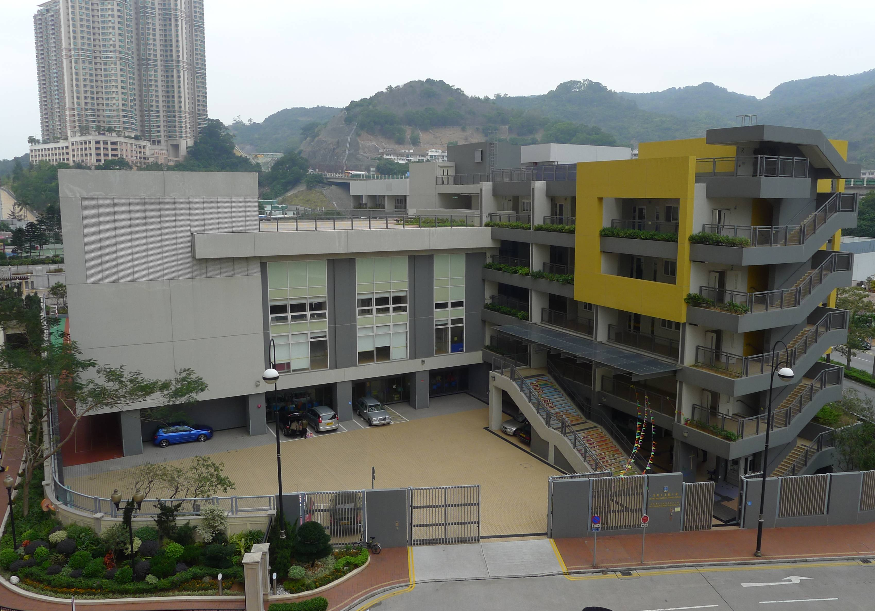 Sham Tseng Catholic Primary School